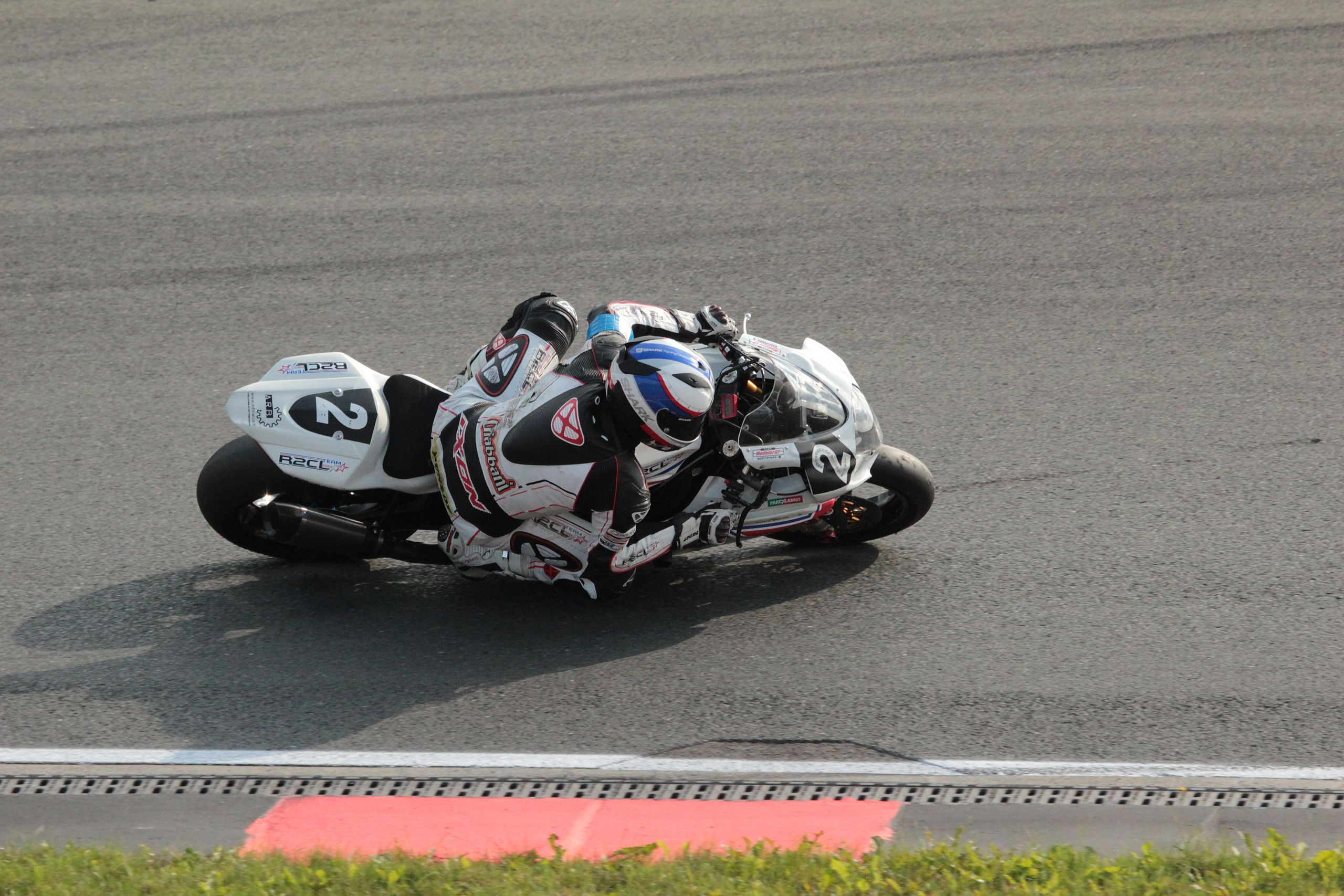 Gwen Giabbani at Oschersleben in 2014, FIM Endurance World Championship